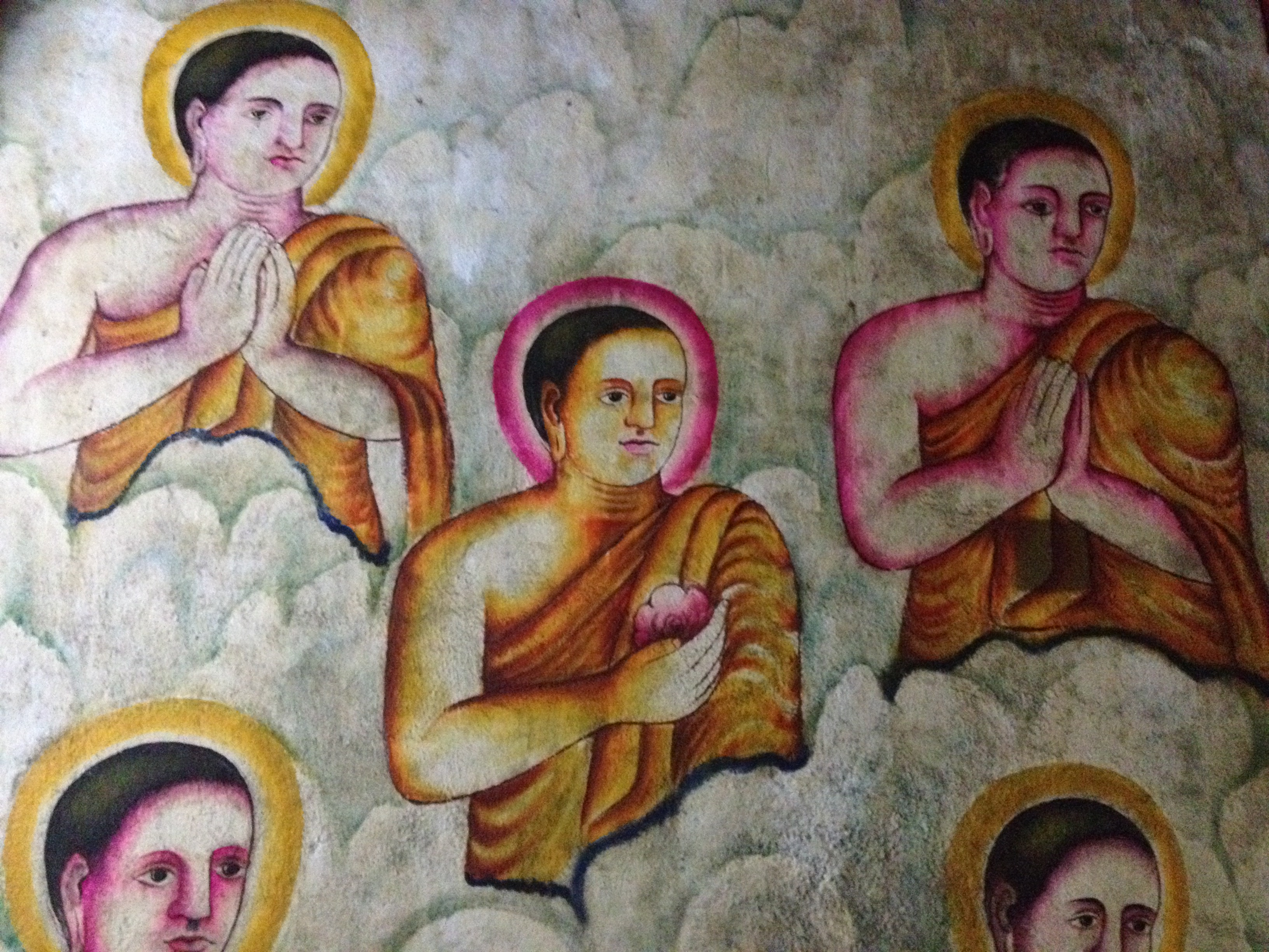 Paintings at Pusulpitiya Raja Maha Vihara